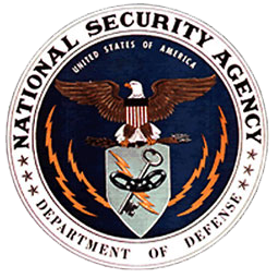 Seal of the United States National Security Agency, used between 1963 and 1966 before being replaced by the current seal. The NSA was formed in 1955, but did not have its own seal for several years. This seal was first used in February 1963, before being replaced in September 1966 with the seal used today. The NSA has no information on the origin or design of this seal. For more information, see here.